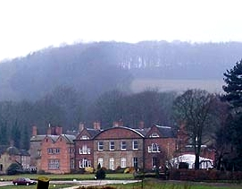 Hopton Hall in Derbyshire - cropped version